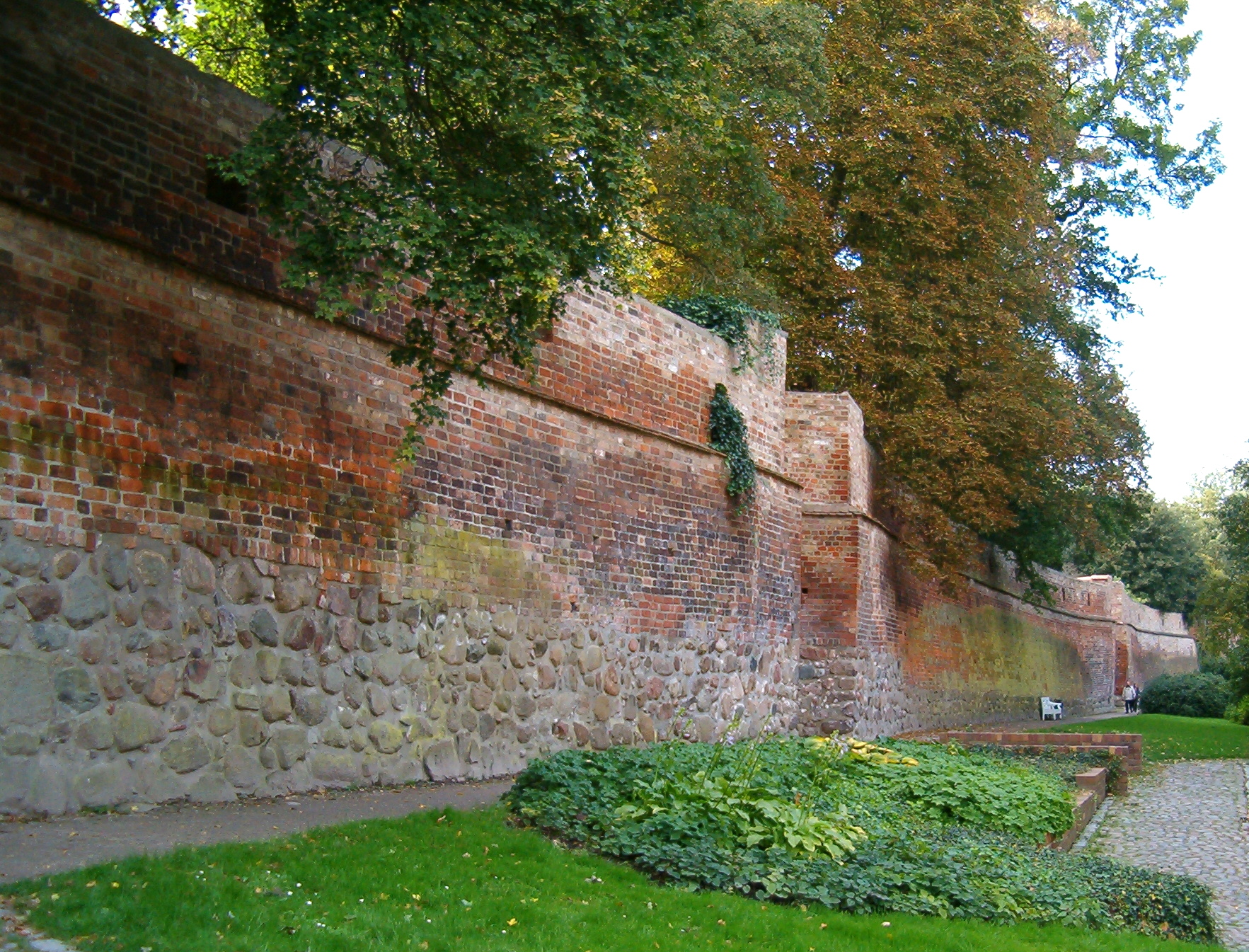 Rostock, City Wall